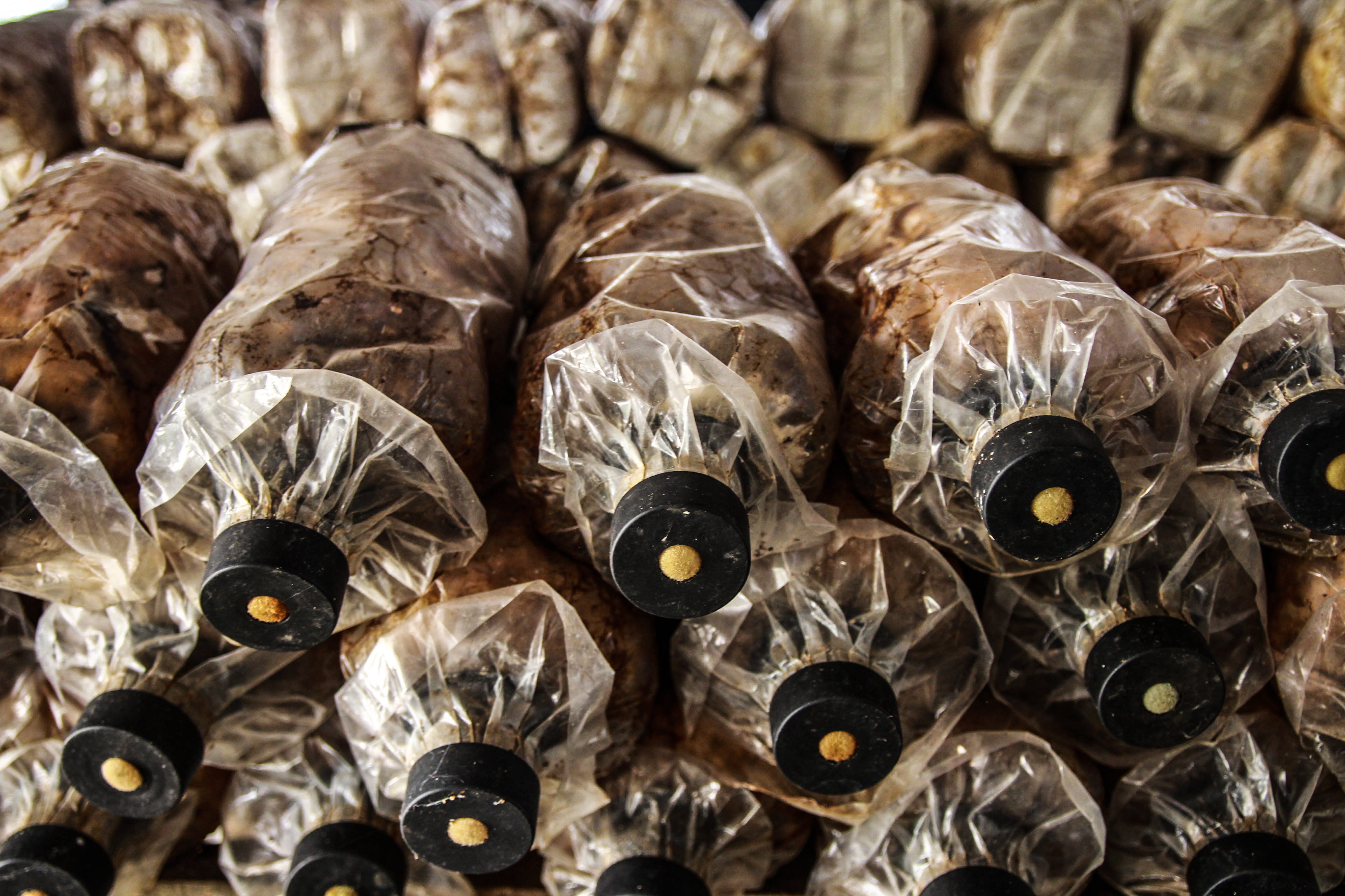 Fungiculture, Cameron Highlands, Malaysia